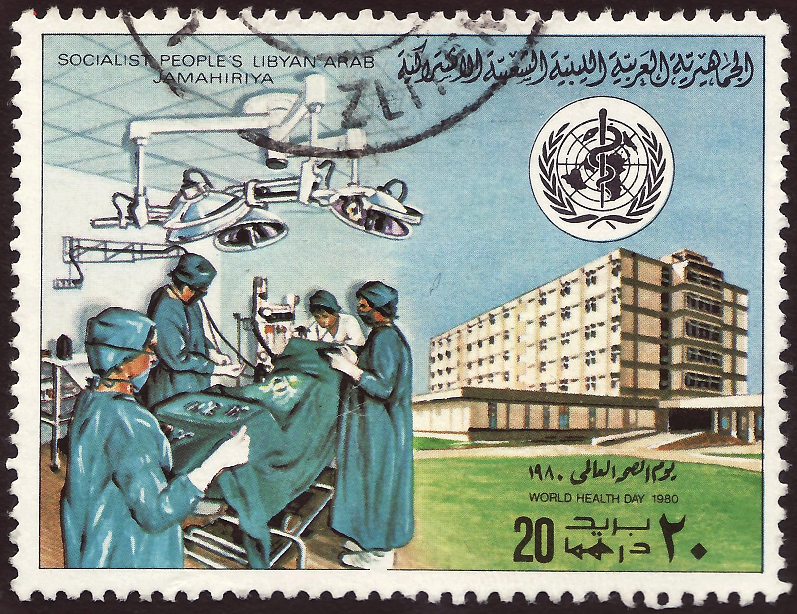 Stamp of Libya ("Great Socialist People's Libyan Arab Jamahiriya"); 1980; commemorative stamp to the "World Health Day, 1980"; The "World Health day, 1980" of the World Health Organization (WHO) of the United Nations took place on the 7 April 1980.; the motive of this stamp shows an surgery team at an operation and a hospital building; stamp postmarked Stamp: Michel: No. 811; Yvert et Tellier: No. 847; Scott: No. 885 Color: multicolored on normal paper Watermark: none Nominal value: 20 (Dirhams) Postage validity: from 7 April 1980 until 2011 Stamp picture size (printed area of a single stamp): 44.5 x 33.0 mm